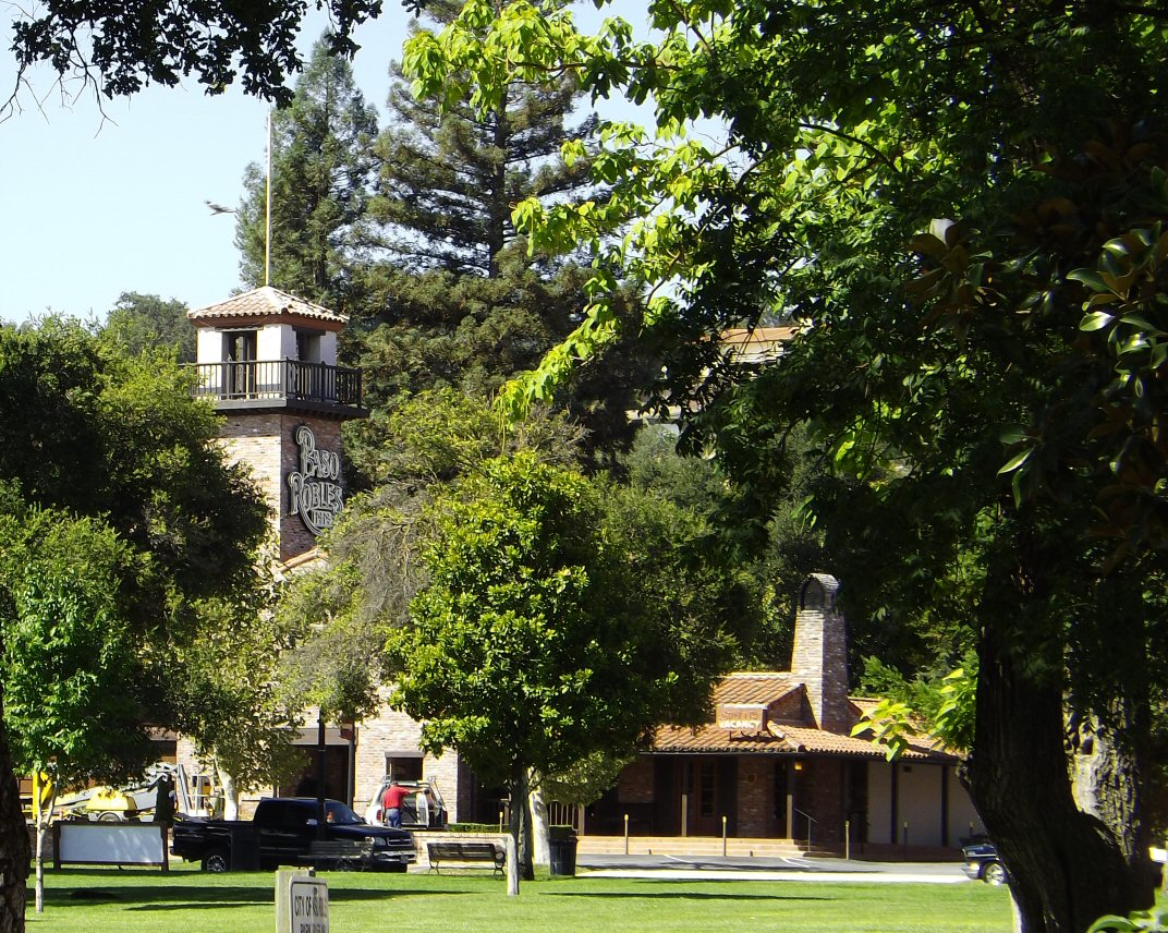 Viewed from the Paso Robles downtown park. See my profile for attribution information